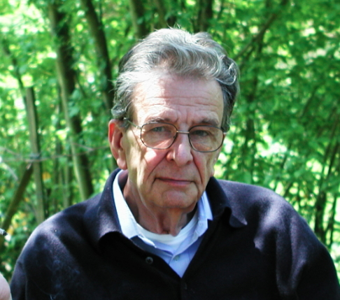 Prof. Dr. Duilio Arigoni (2002)